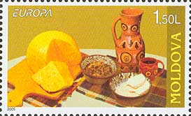 Stamp of Moldova